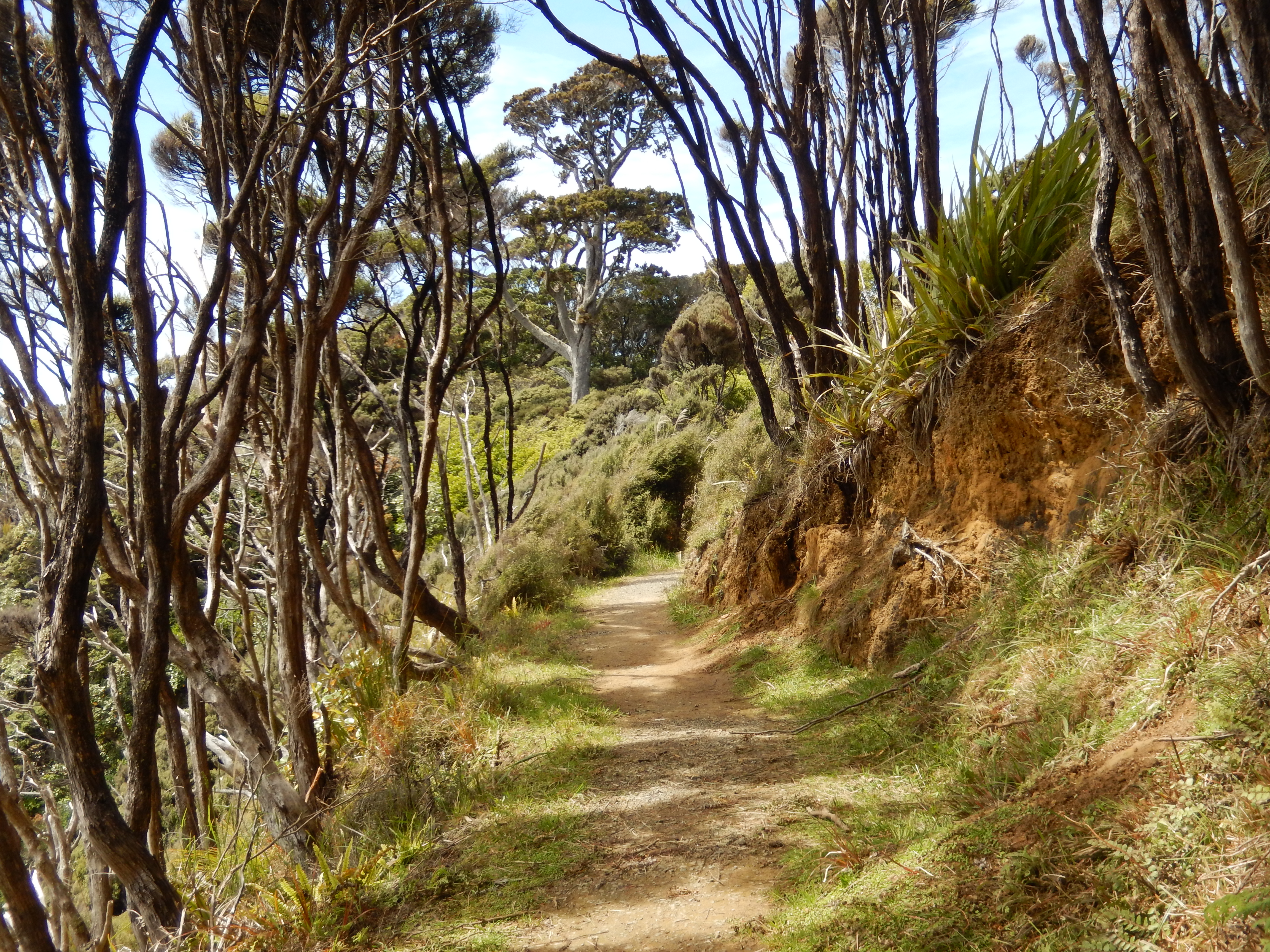 Rakiura Track between Little River and Maori Beach.